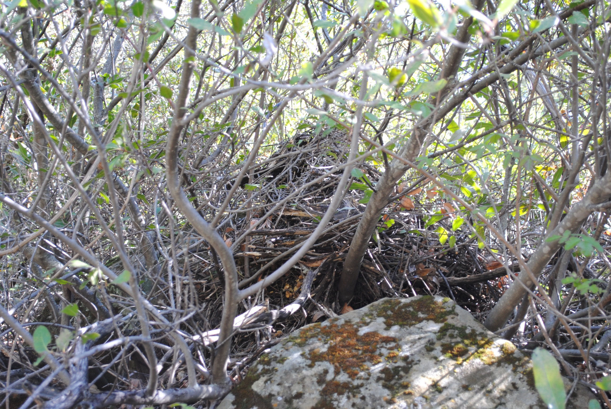 Woodrat house/den at Stebbins Cold Creek Canyon, CA